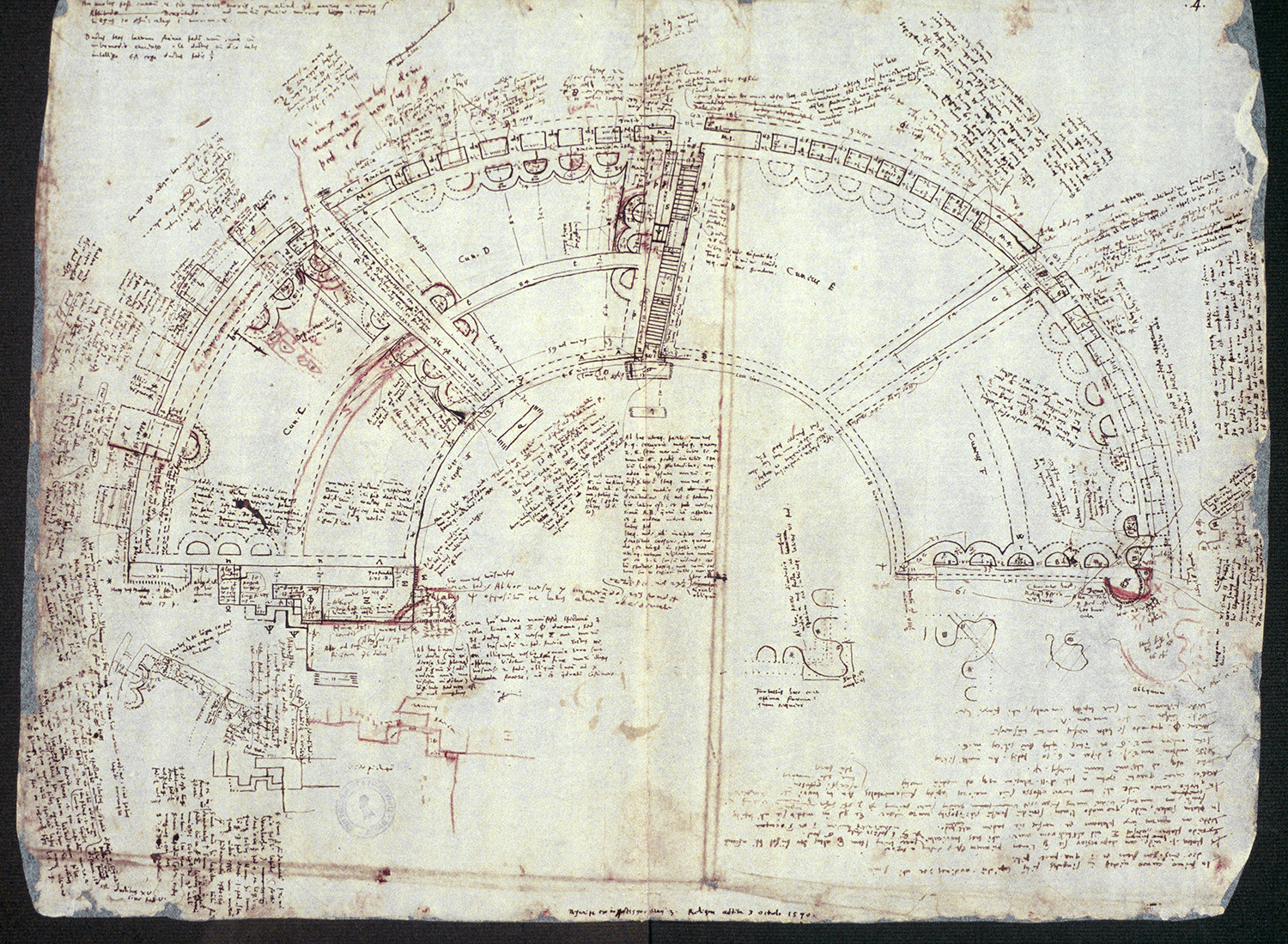 Handgezeichnete Karte des Theaters Augusta Raurica von Basilius Amerbach 1590